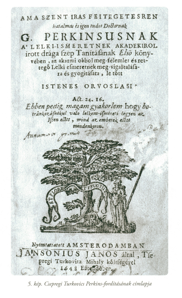 Book_cover_of_the_Hungarian_translation_of_the_book_by_Perkinslabel QS:Len,"Book_cover_of_the_Hungarian_translation_of_the_book_by_Perkins" label QS:Lhu,"Csepregi Turkovics Perkins-fordításának címlapja"